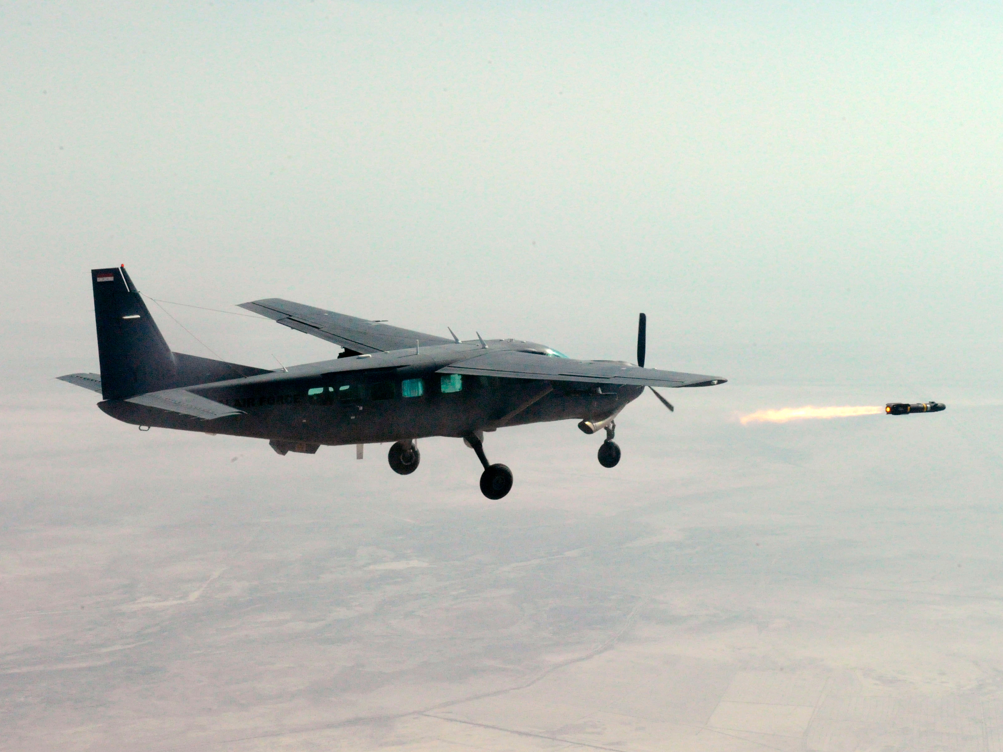 An Iraqi Air Force AC-208 Cessna Caravan launches a Hellfire missile at a target on the Aziziyah Training Range, south of Baghdad, Nov. 8. The Iraqi airmen destroyed the target with a single hit in their second-ever launch of a Hellfire missile.